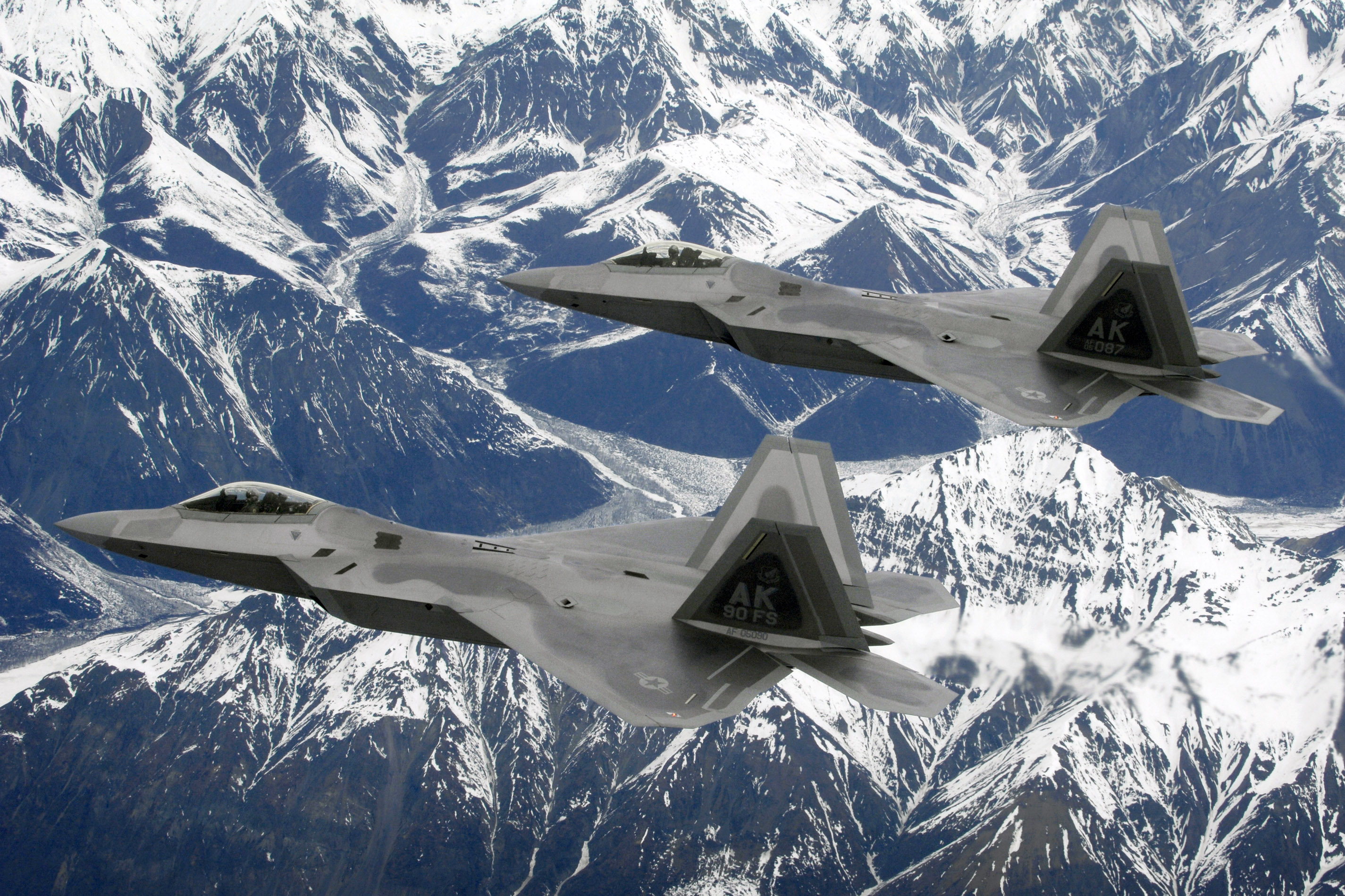 F-22 Raptors fly a training mission near Elmendorf Air Force Base, Alaska. The aircraft are assigned to the 3rd Wing at Elmendorf.